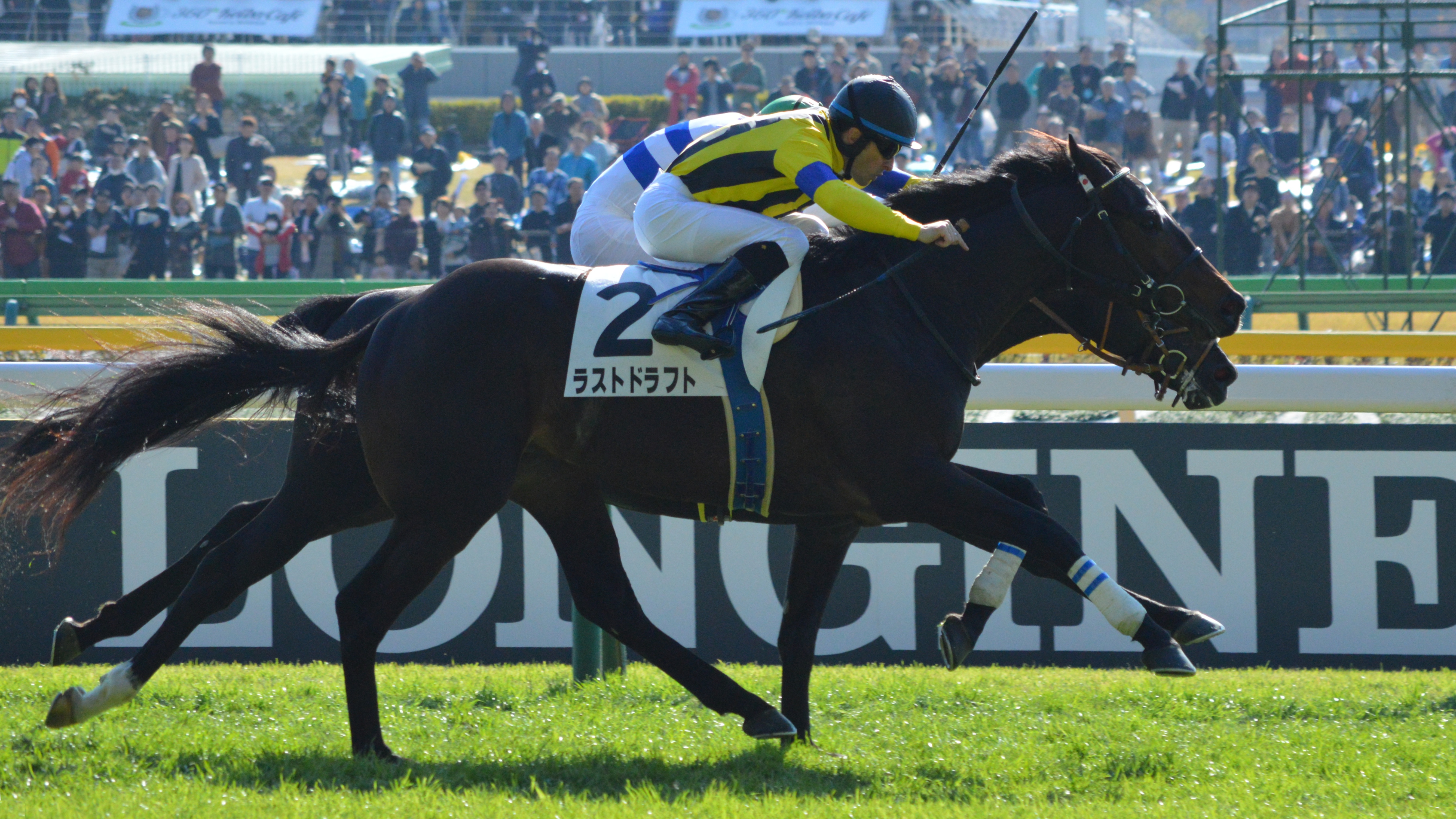 Japanese race horse Last Draft at Tokyo racecourse. Tokyo (JPN) 25 Dec 2018Maiden (Turf) 1m1f Firm RankHorse NameOddsAgeWgtJockeyTrainer1stLast Draft (JPN)3/2FC28-9Christophe Patrice LemaireHirofumi Toda2ndMikki Hide (JPN)42/10C28-9Ryan MooreNobuyuki HoriOthers are omitted. (11 horses entered in a race.)